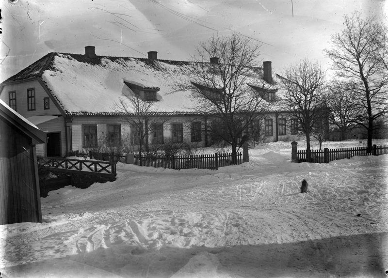 Grefsheim estate in Norway, on the Nes island outside of Hamar. Picture taken around 1900.